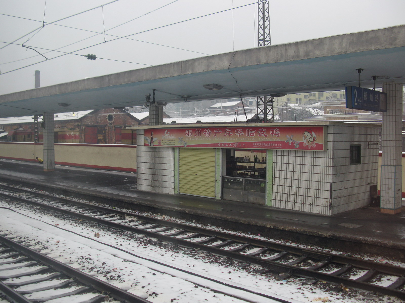 Chenzhou Railway Station